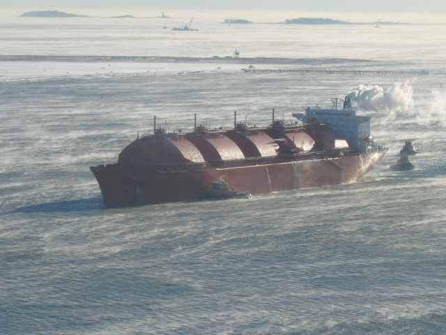 A liquefied natural gas tanker arrives in Boston, MA